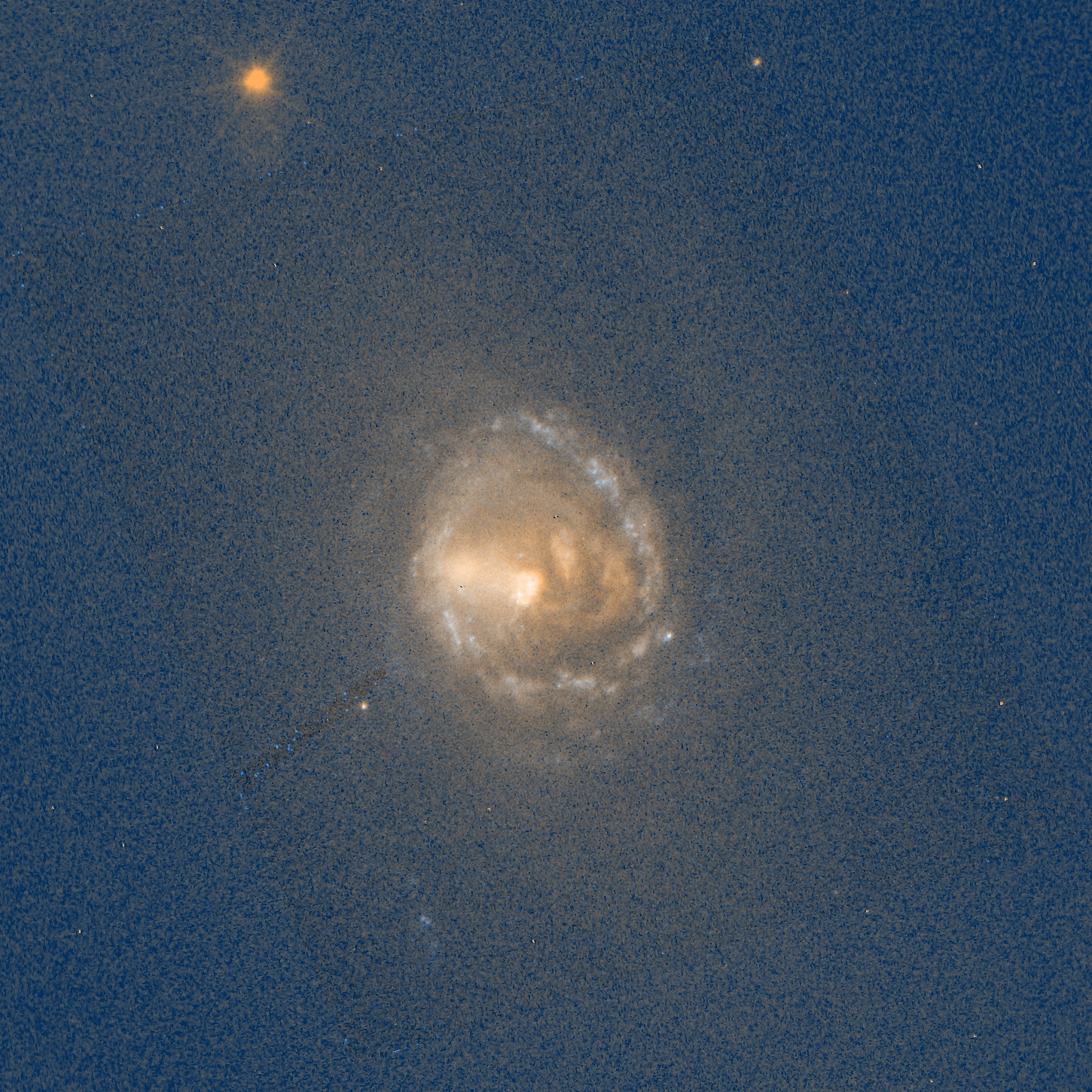 Color rendering is done by by Aladin-software (2000A&AS..143...33B.)